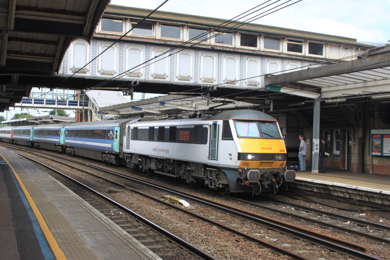 90005 Vice-Admiral Lord Nelson slows to a atop at Ipswich while working a Greater Anglia service from Norwich to London Liverpool Street.